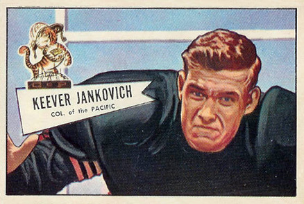 American football player Keever Jankovich on a 1952 Bowman Large card.